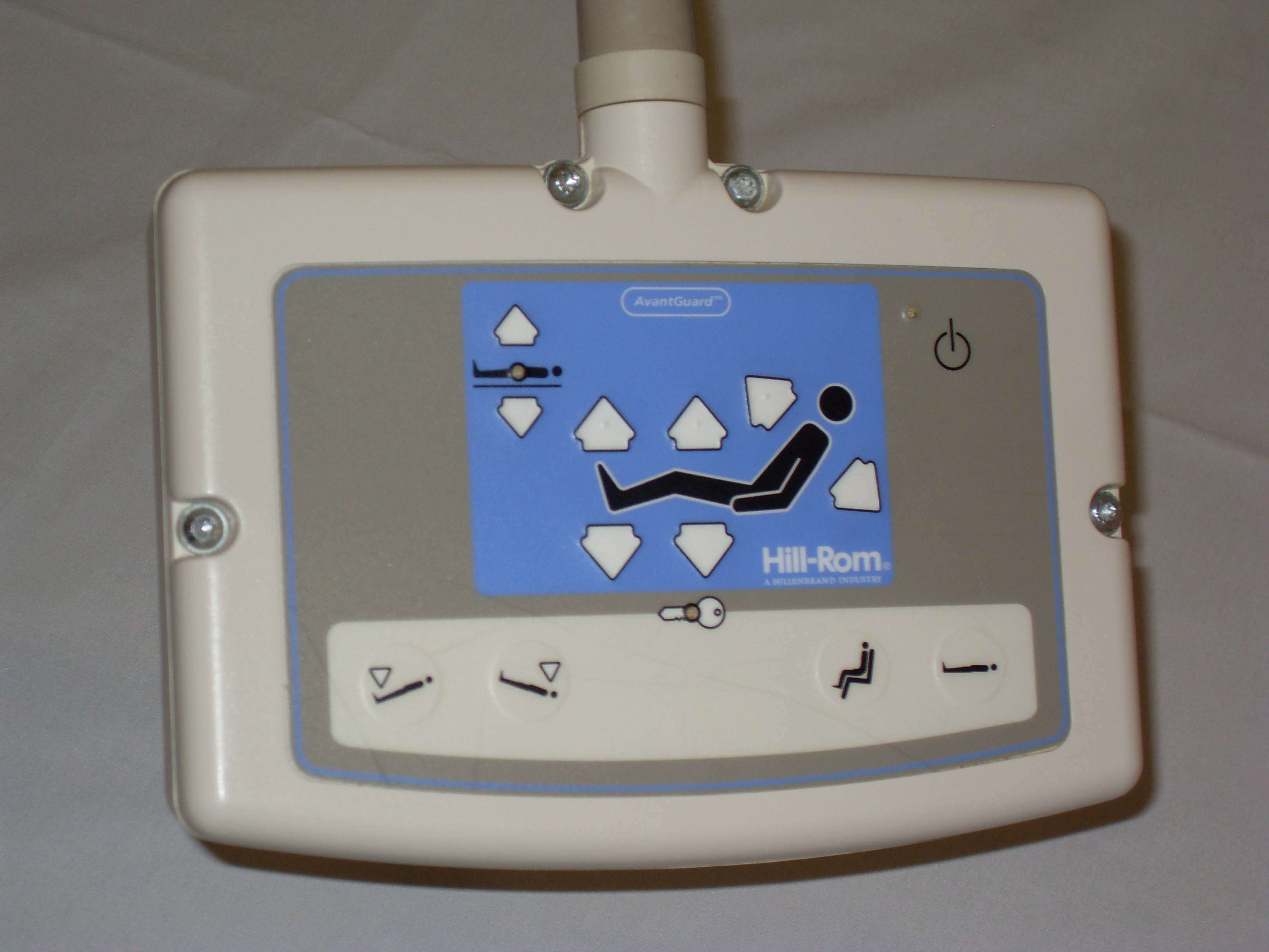 Control Panel for Hospital Bed #3